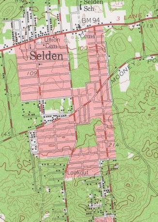 Excerpt of 1954 map from United States Geological Survey showing location of Lookout Tower on Telescope Hill in Selden, New York